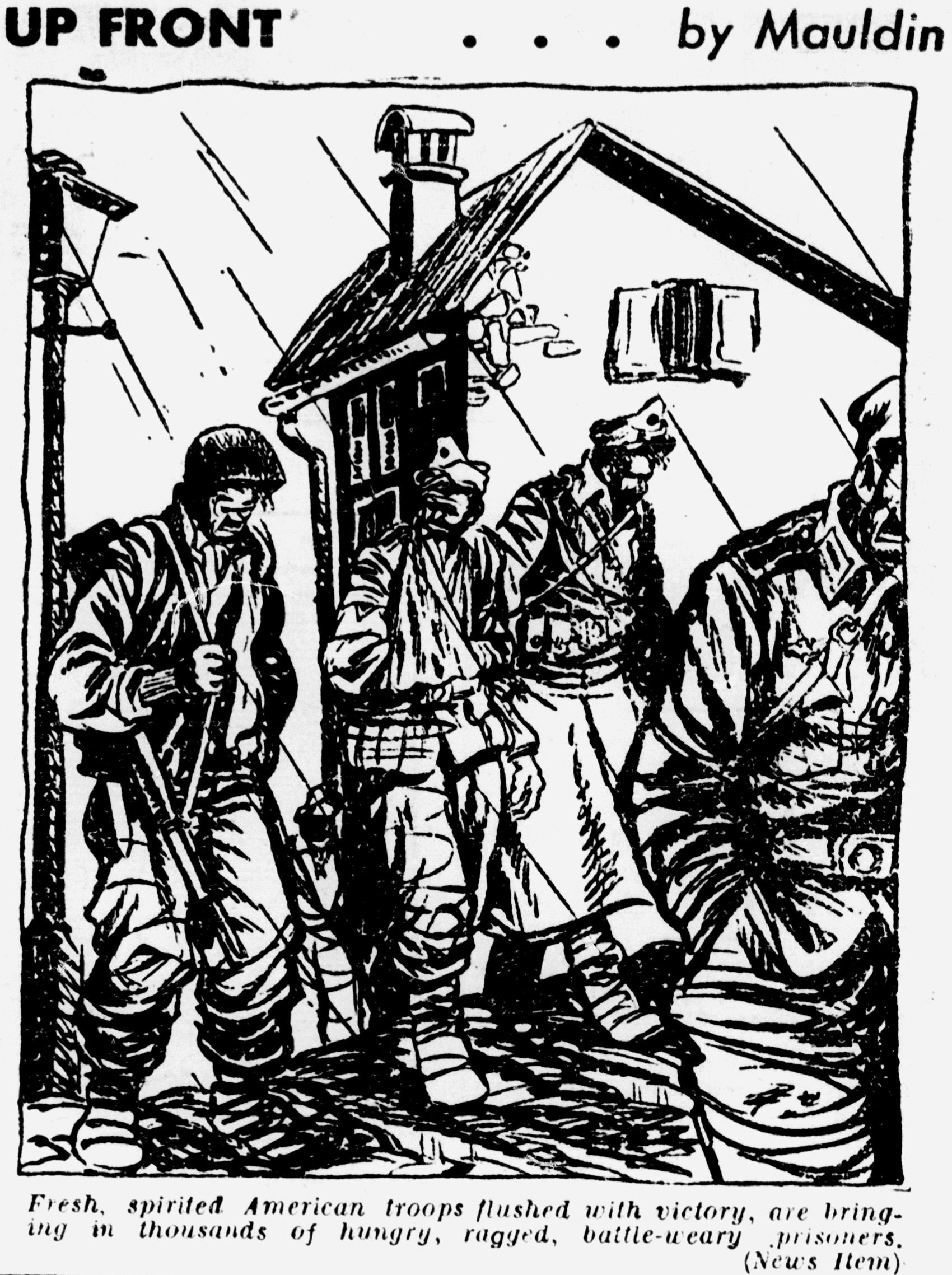 A cartoon from the series Up Front With Mauldin, satirizing the American media's reporting on World War II. When Mauldin received the Pulitzer Prize for Editorial Cartooning in 1945, this cartoon was cited as an exemplar of his work.